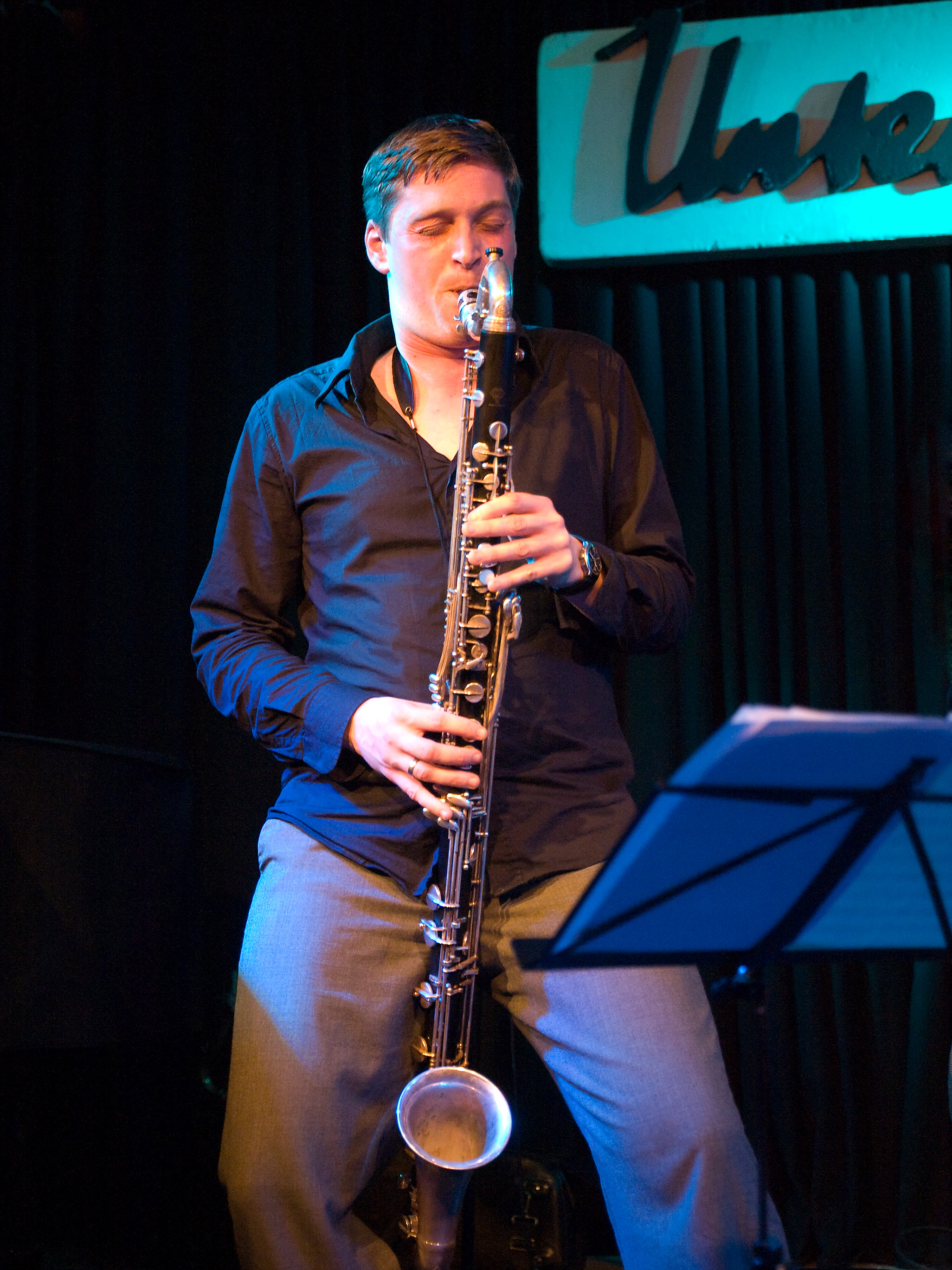 Niels Klein, Jazz saxophonist; Picture taken in Jazz Club Unterfahrt, Munich/Bavaria